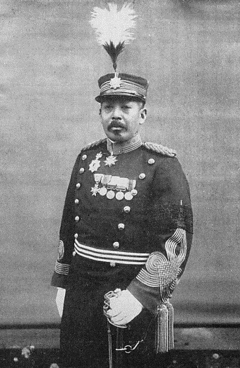 Tomotake Takashima